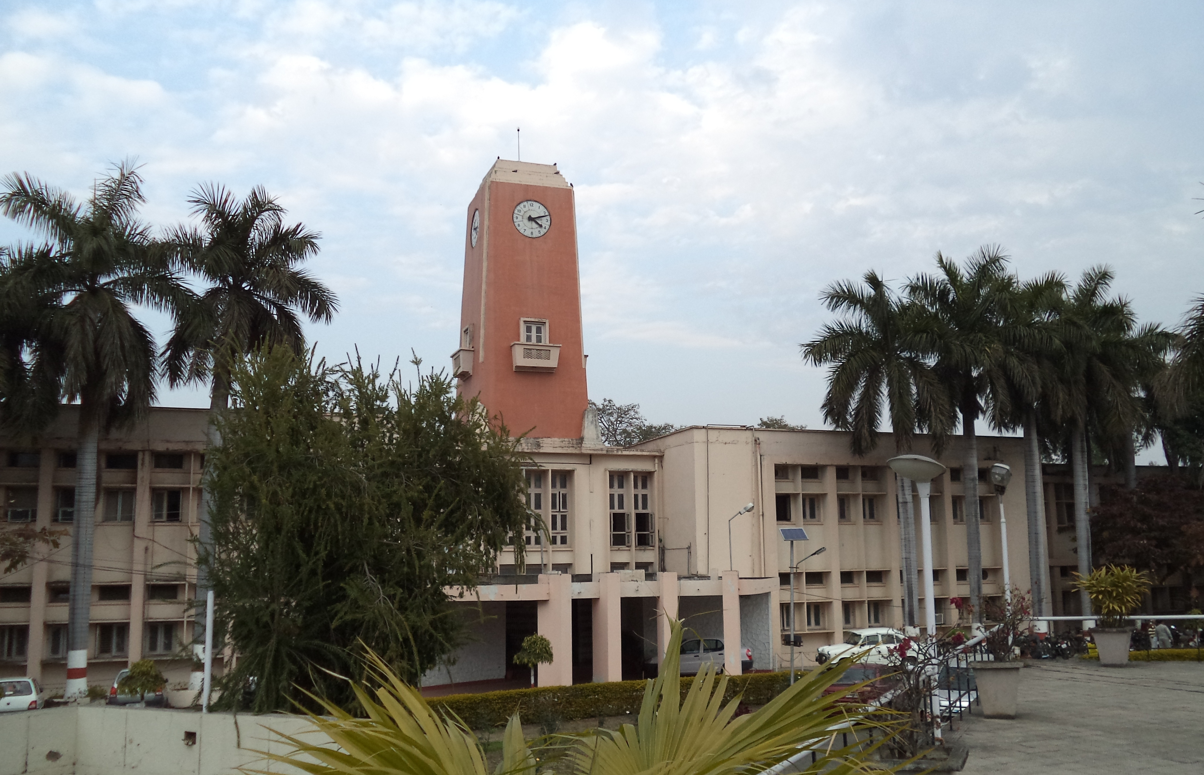 Main administrative building, Office of Vice Chancellor aka "Ghanta Ghar" in campus of G. B. Pant University of Agriculture and Technology, Pantnagar, Uttarakhand, India